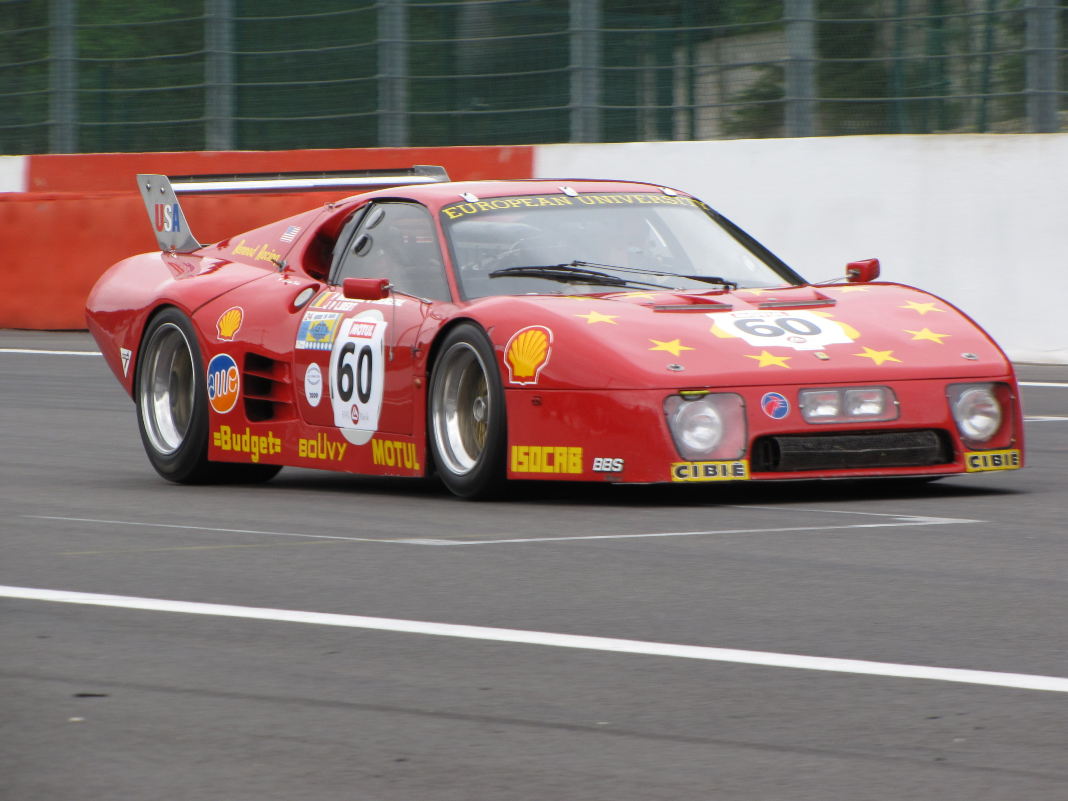 Ferrari 512 BB LM at the practice of Classic Endurance Racing in Spa 2009.